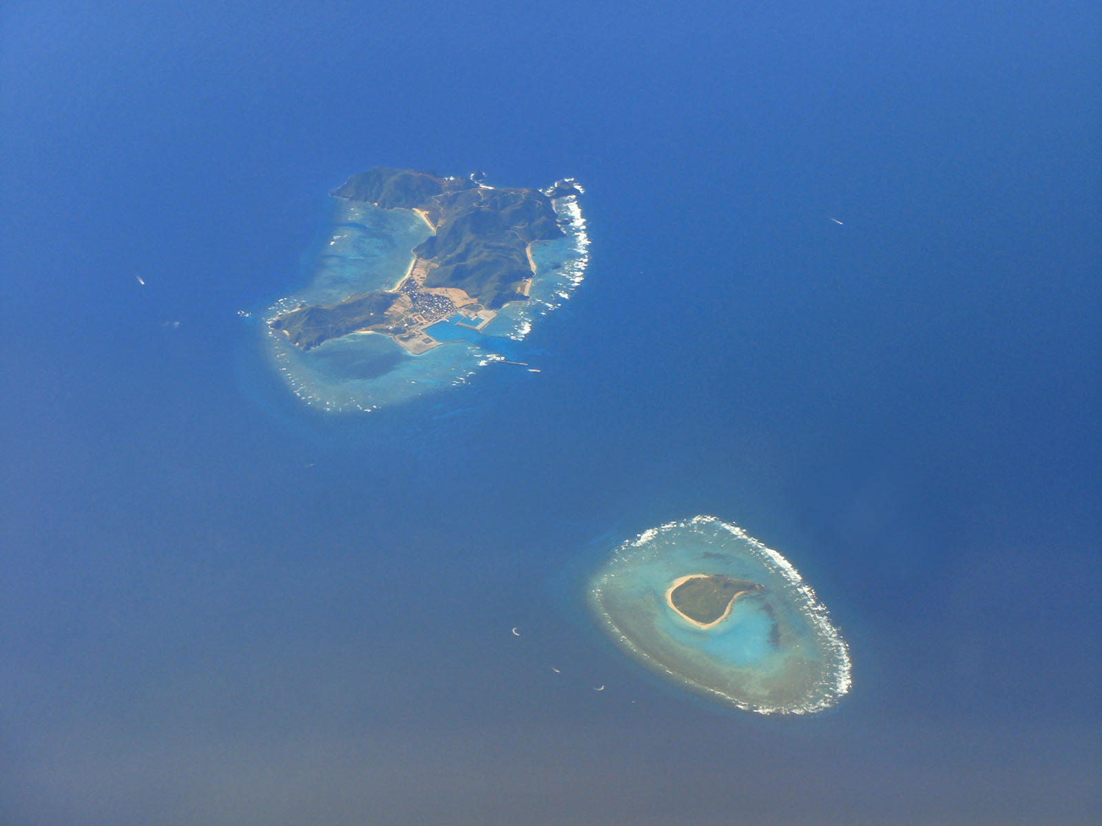 Tonaki Island (back) and Irishina Island (front). Administratively both belong to the village of Tonaki, Shimajiri District, Okinawa prefecture, Japan.